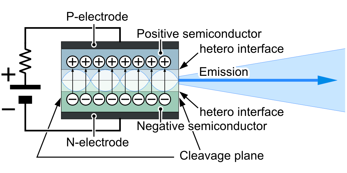 Laser Diode cut model #1 with English tags